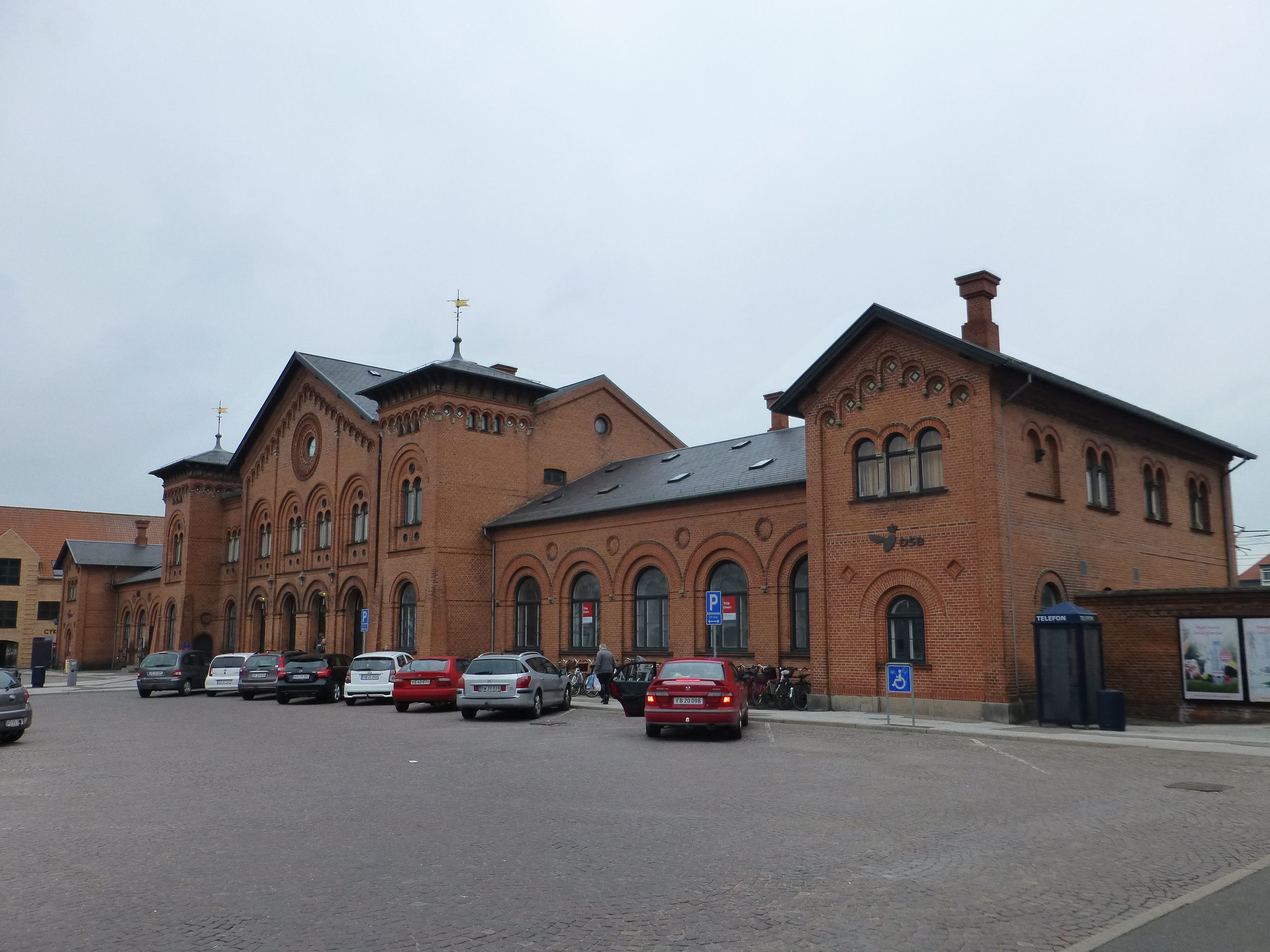 Slagelse Station on Vestbanen between Copenhagen and Slagelse and endpoint of Tølløsebanen to Tølløse.